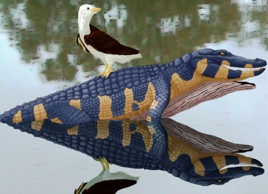 Illustration of the bird Avisaurus archibaldi peacefully coexisting with the alligatorid Brachychampsa montana.